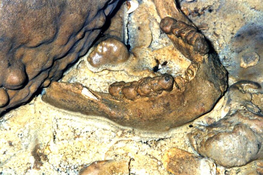 Human lower jaw in a Linars cave, Alzou valley, Rocamadour, Lot, France.